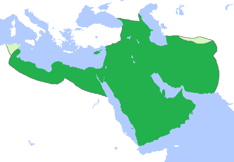 Map of the Rashidun Caliphate (dark green) with vassal states (light green), c. 654. (Partially based on several other Wikimedia Commons maps of the Rashidun Caliphate).